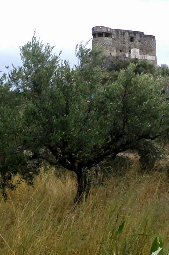 Fortifications in Stoupa/Mani/Peloponisos/Greece. Accordingly to many local relations, built by the Royal Greek Armed Forces personnel "and a plenty of Chites, for one and a half year", in the period between the liberation from Nazi occupation, and the broke out of the Greek Civil War.